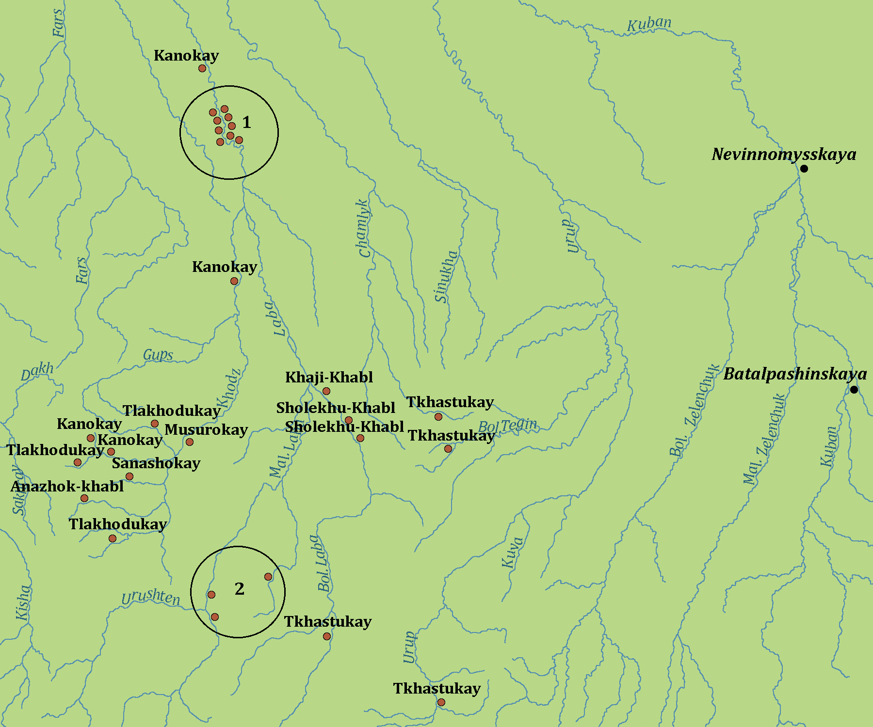 Besleneys villages in 1830-1850 years. 1 — nine villages resettled out of the mountains general Zass; 2 — names are unknown.